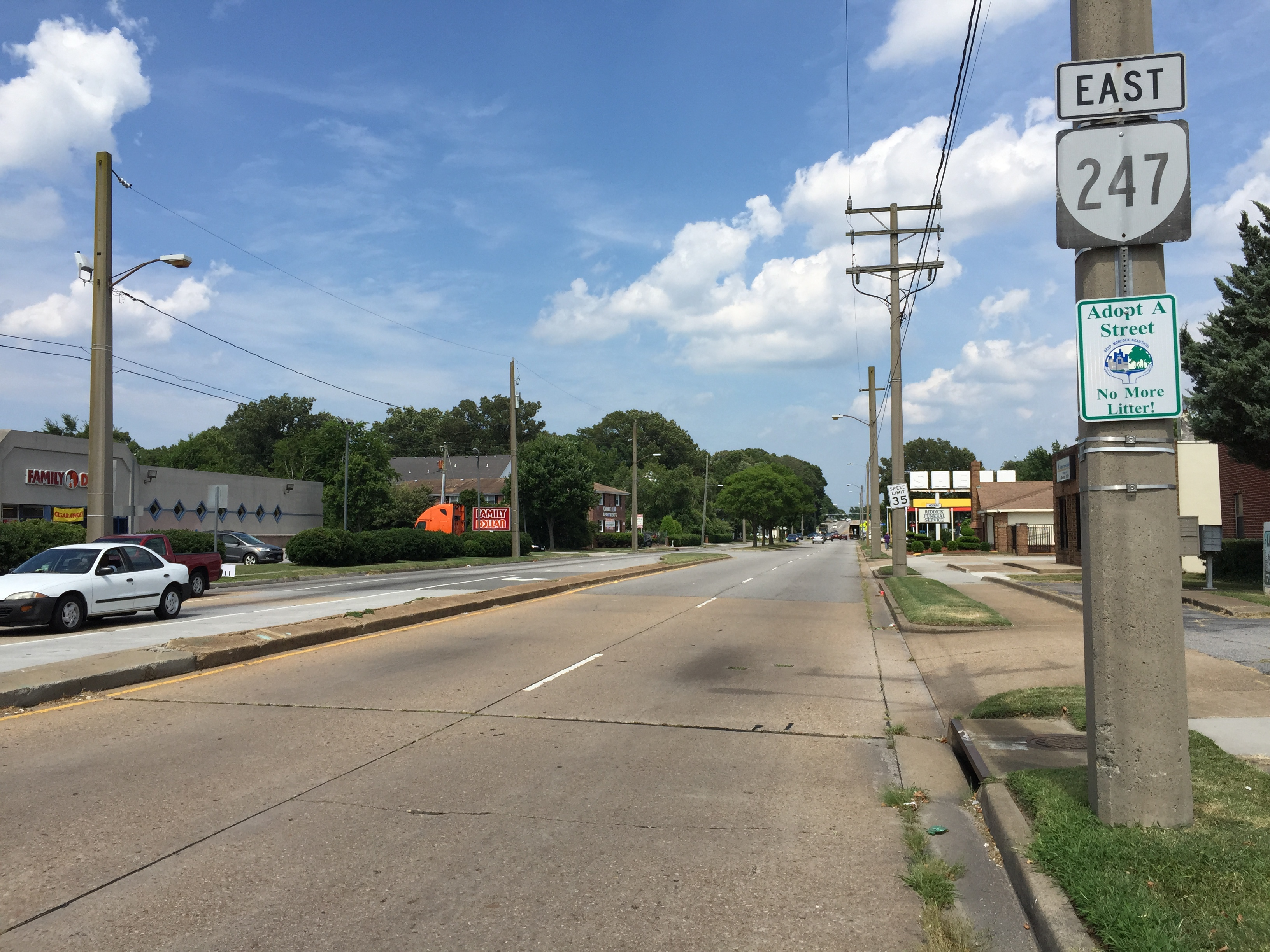 View east along Virginia State Route 247 (Norview Avenue) at Virginia State Route 194 (Chesapeake Boulevard) in Norfolk, Virginia